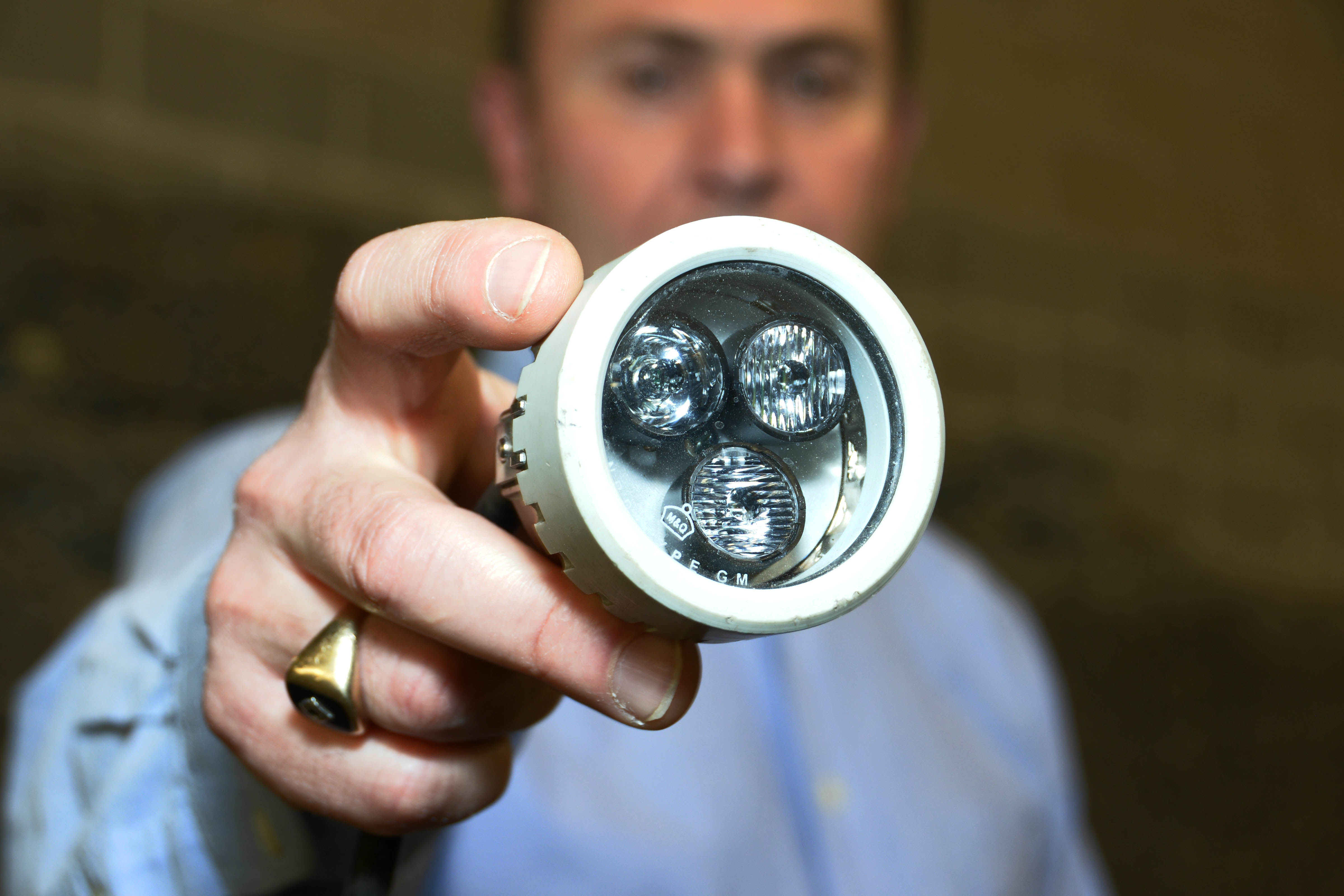 Improved illumination in underground mines could be a key to reducing the second leading accident class of nonfatal lost-time injuries—slips, trips, and falls.